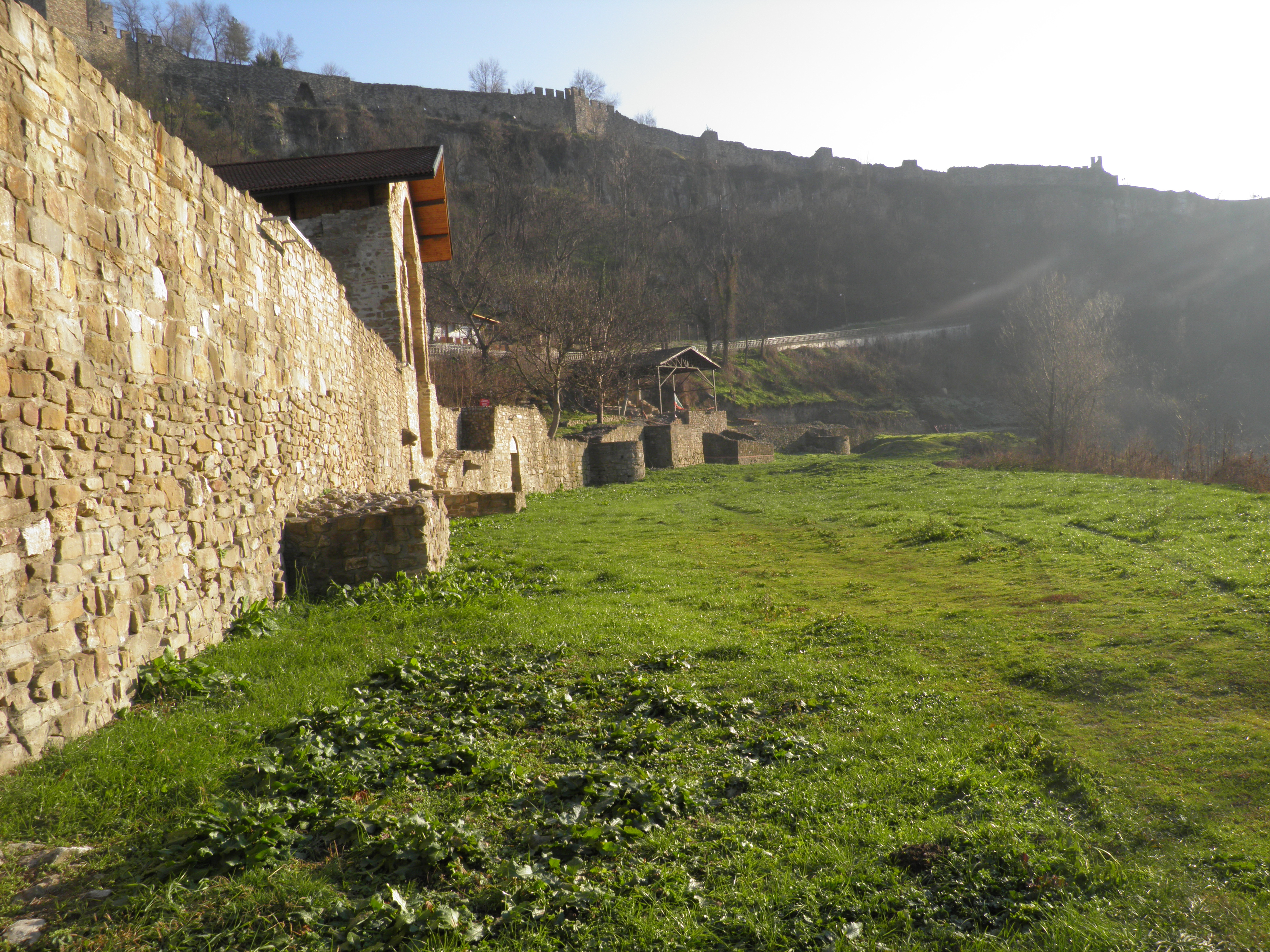 Ruins from Tarnovgrad capital os Second Bulgarian Empire(1185-1396)